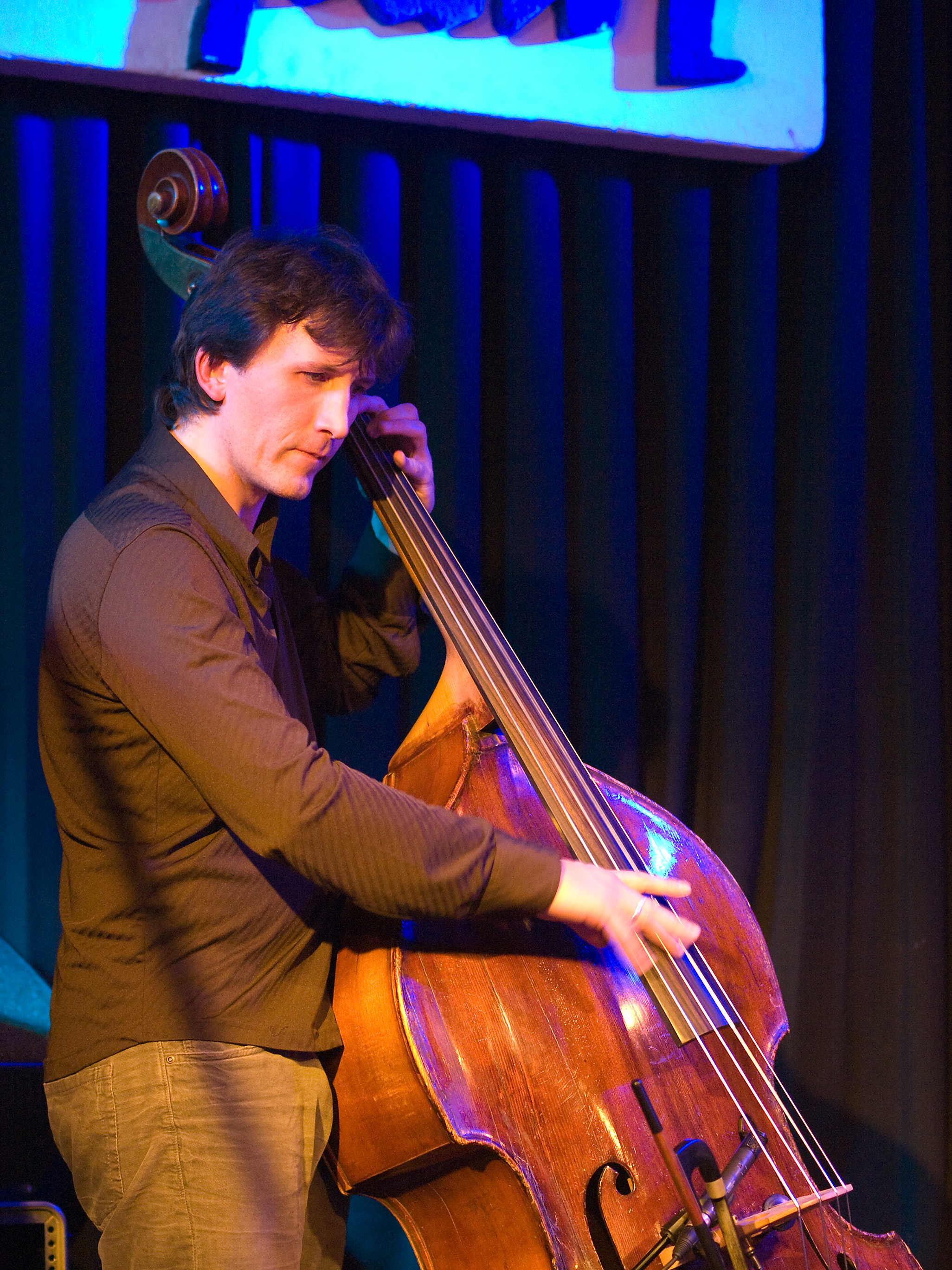 Marc Muellbauer, Jazz bassist, Picture taken in Jazz Club Unterfahrt Munich/Bavaria